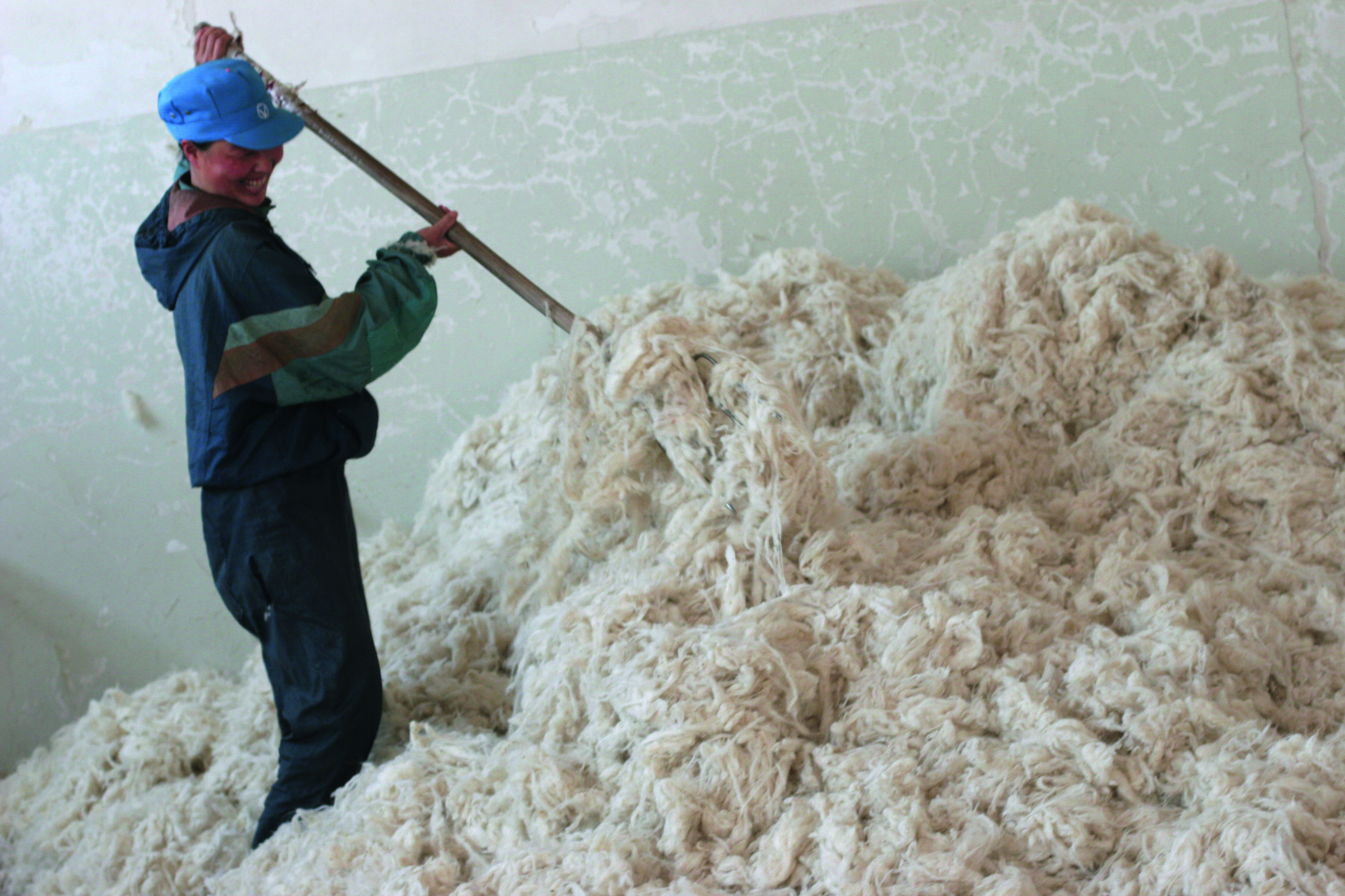 Worker at a Pure Collection factory sifting the long cashmere fibres